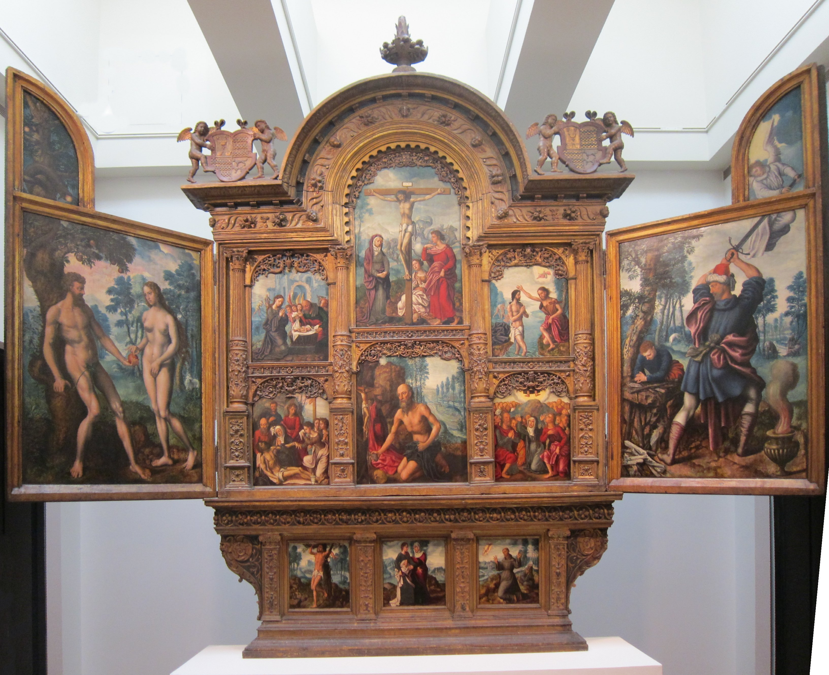 Altarpiece with Scenes from the Old and New Testaments known as the "Tendilla Retablo", oil on panel paintings by Jan Sanders van Hemessen and Caterina van Hemessen, 1550s, Cincinnati Art Museum